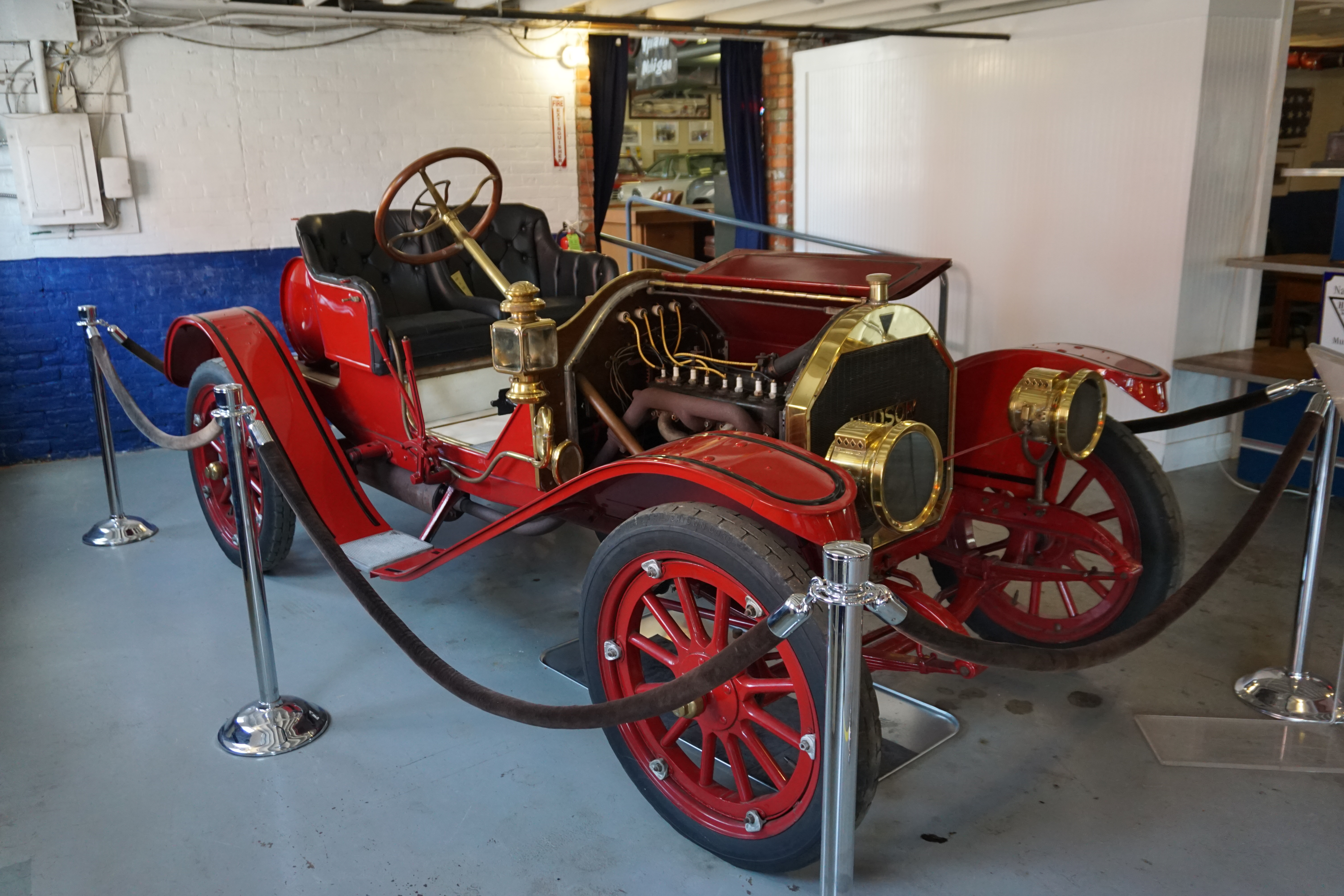 A 1909 Hudson Model 20 at the Ypsilanti Automotive Heritage Museum in Ypsilanti, Michigan (United States).